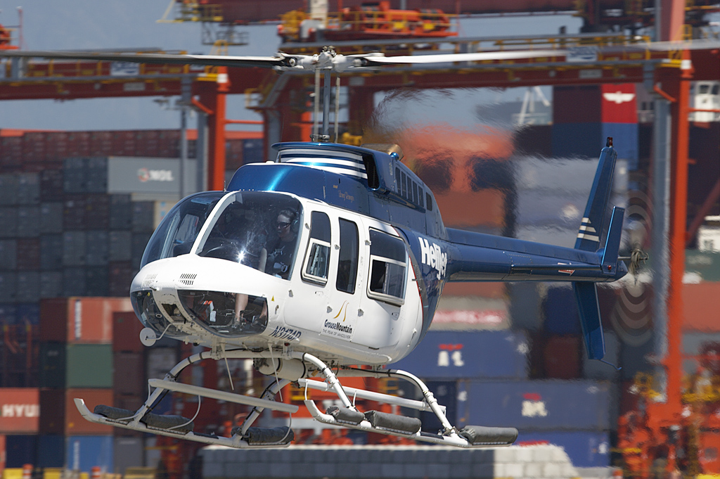 Author: Marek Wozniak A HeliJet Bell 206L-1 LongRanger II landing on HeliJet's Vancouver Harbour (CXH) helipad.